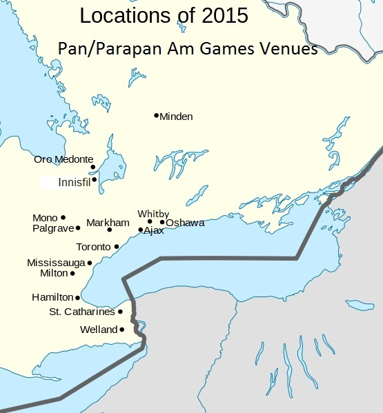 Locations of communities hosting venues for 2015 Pan American Games events